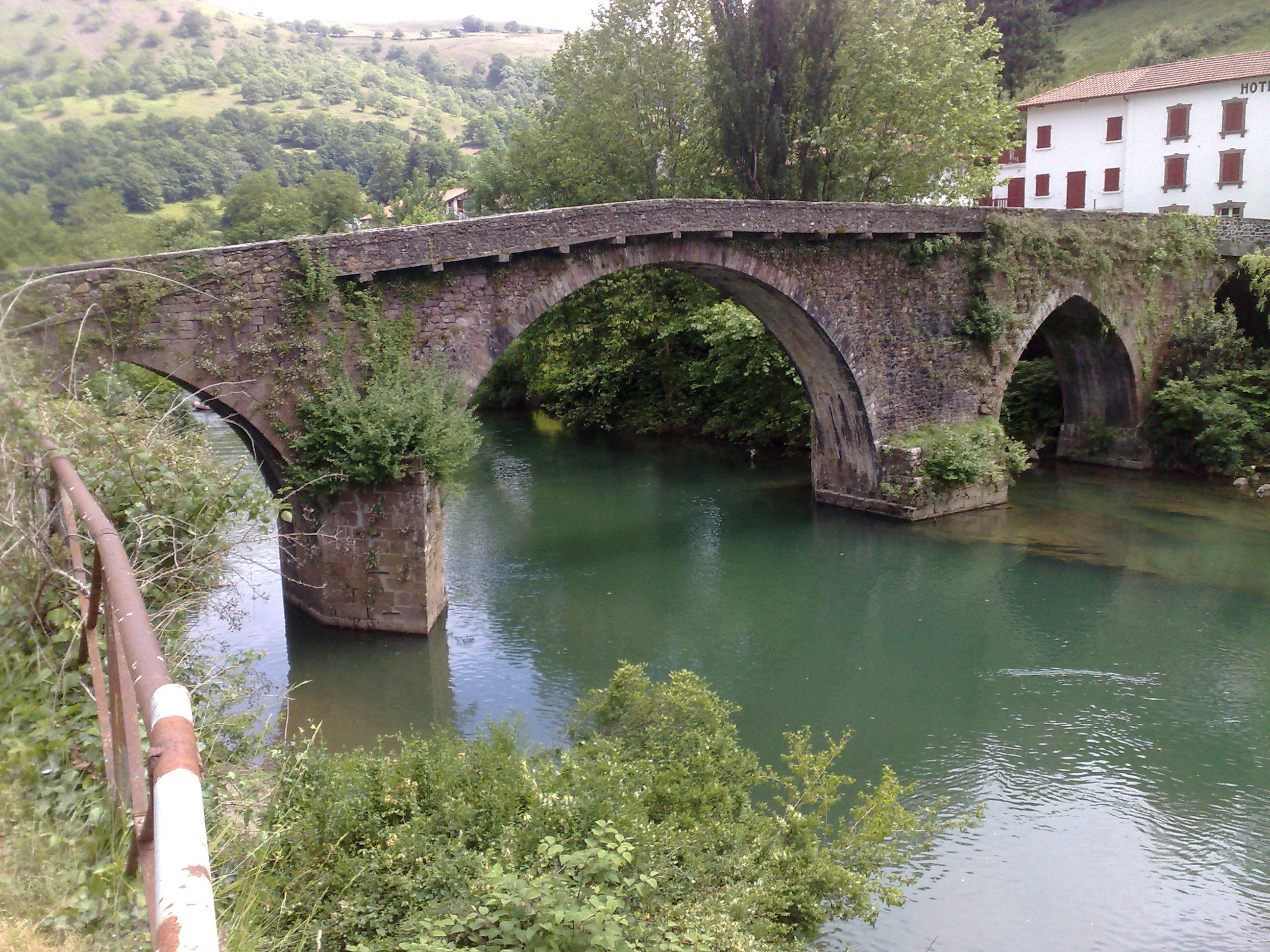 Noblia bridge, seen from Bidarrai train station, Lower Navarre, Basque Country.